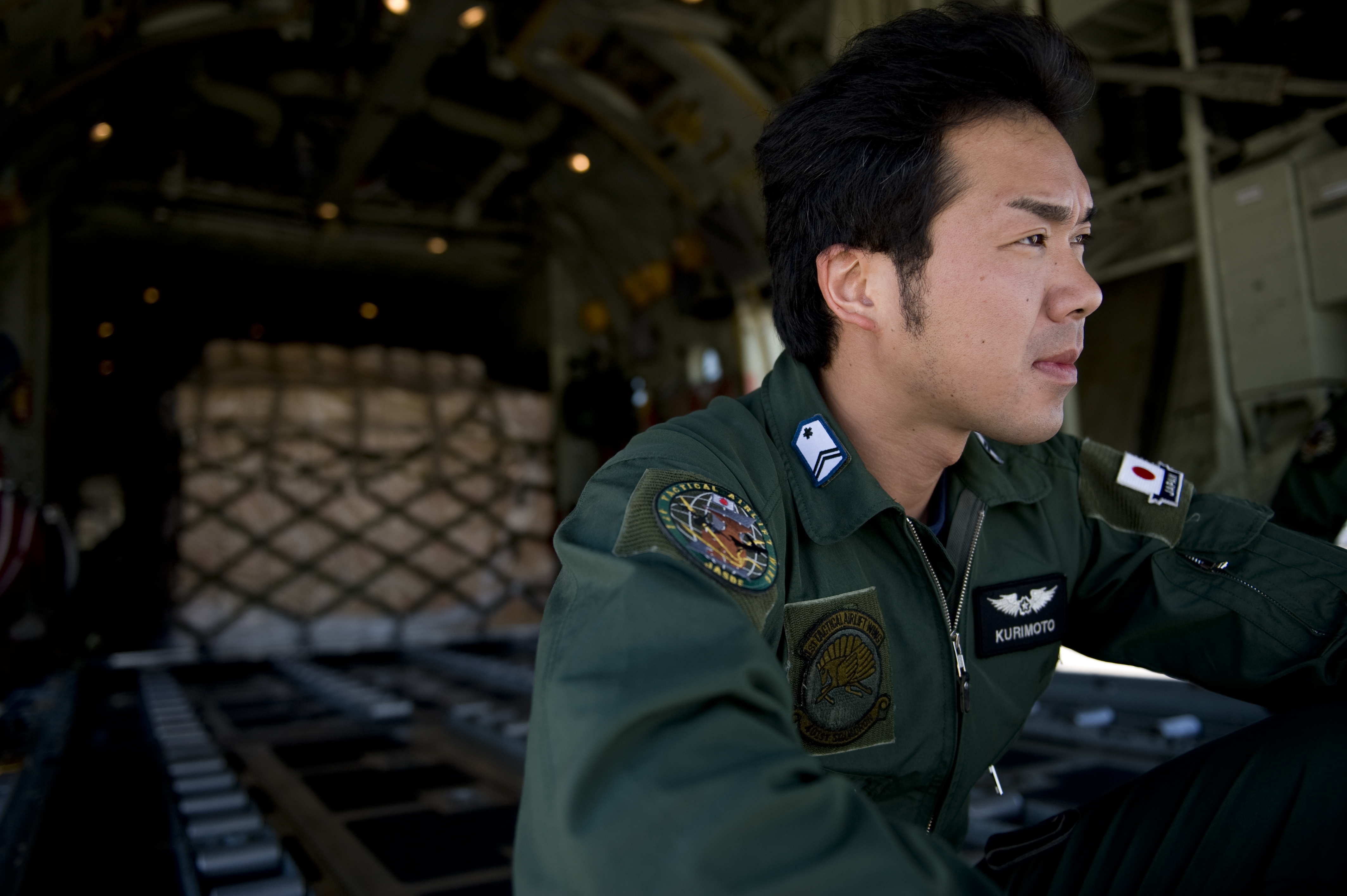 A Japanese loadmaster with the 1st Tactical Airlift Wing, 401st Squadron, Japanese Air Self Defence Force prepares to unload earthquake relief supplies from a C-130 Hercules aircraft at Toussaint Louverture International Airport in Port-au-Prince, Haiti, Jan. 27, 2010. Japanese airmen are operating out of Homestead Air Reserve Base, Fla., which is a vital hub for earthquake relief efforts.